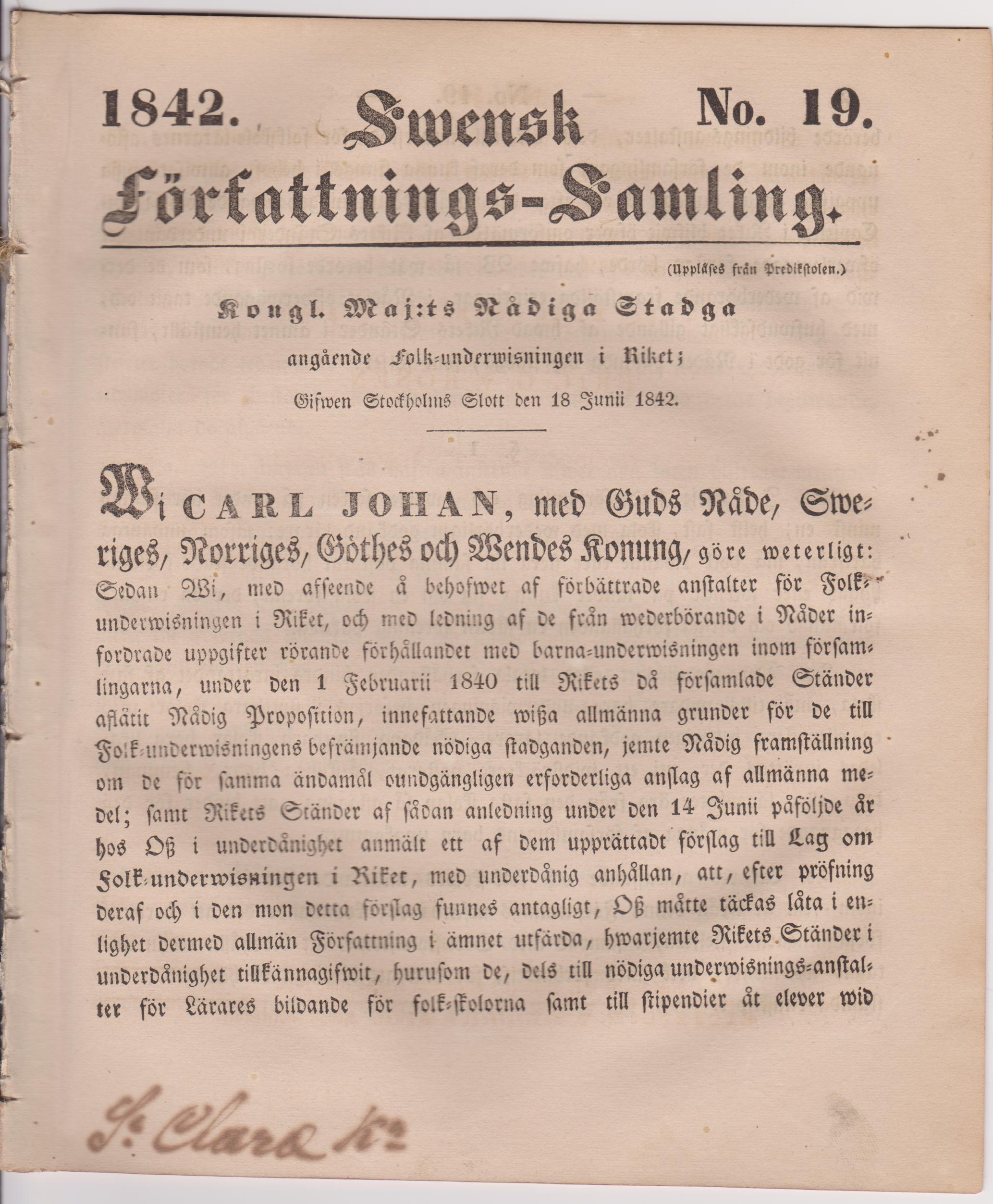 The Swedish law on common education 1842, called "Folkskolestadgan".